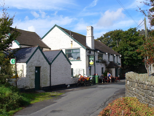 Rose and Crown, Eglwysilan. This remote pub on a hilltop takes some finding, up narrow minor roads from the Taff or Rhymney Valleys. But it's worth finding!